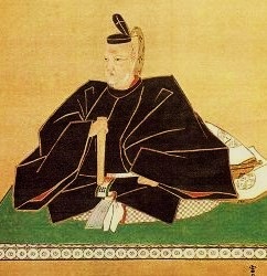 Hooshina Masayuki